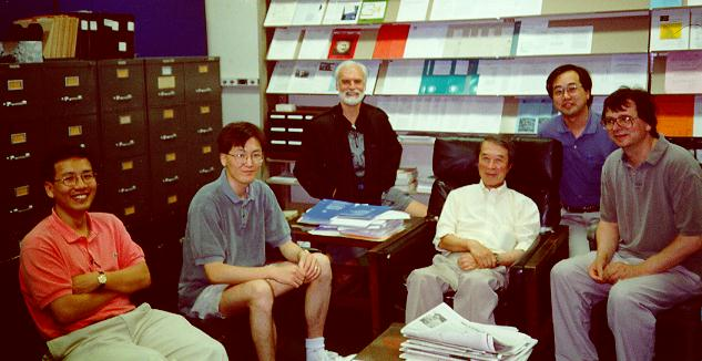 Nambu and associates at the Argonne Non-Abelian Duality Theory Institute, July 1996. From left to right, SK Nam, P Yi, TL Curtright, Y Nambu, T Uematsu, and A Jevicki.